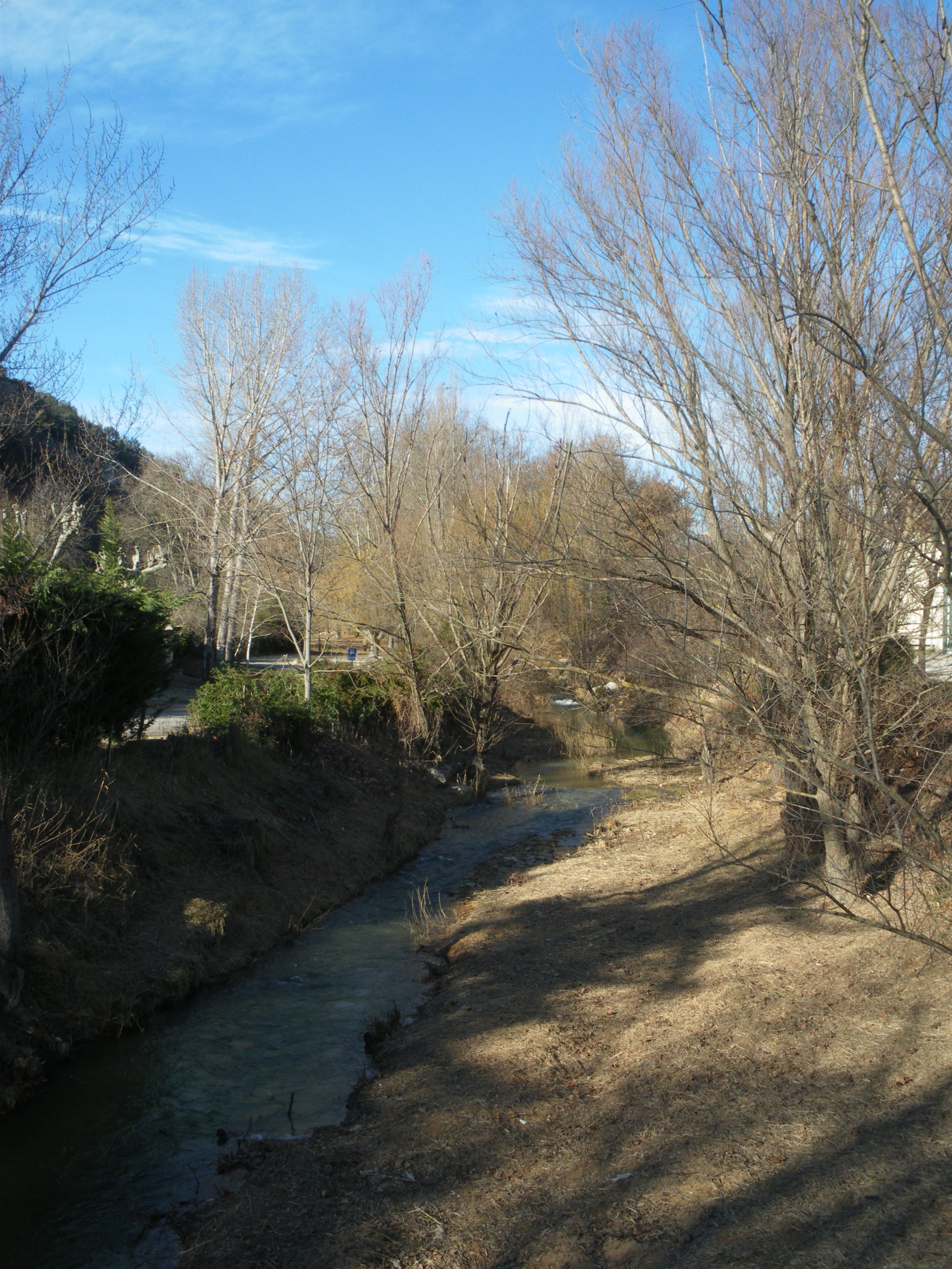 Limergue river, in Lumière, near Goult, Vaucluse, France